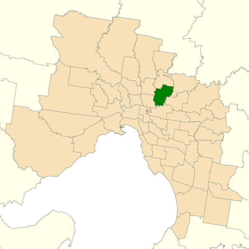 Location of the Victorian electoral district of Ivanhoe (dark green) in the Greater Melbourne area.